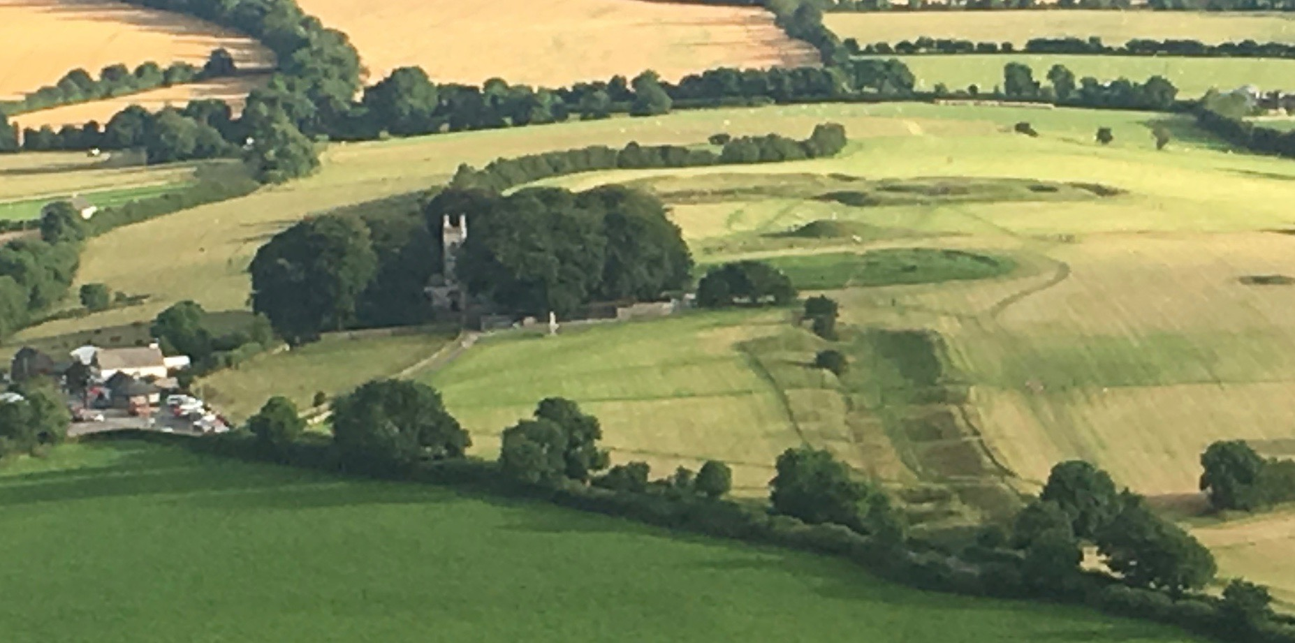 The Hill of Tara, as seen from the air. Taken from a hot-air balloon, Summer 2016.